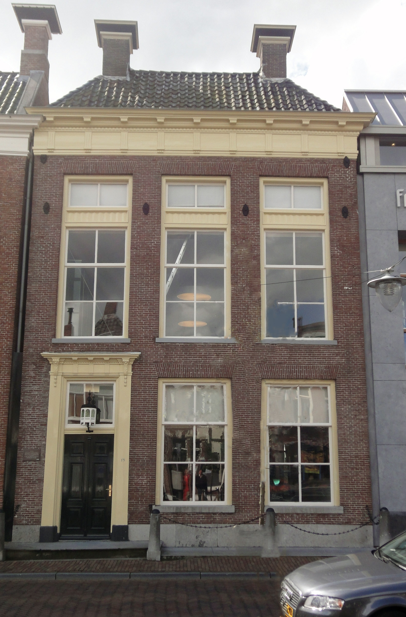 Fredeheim